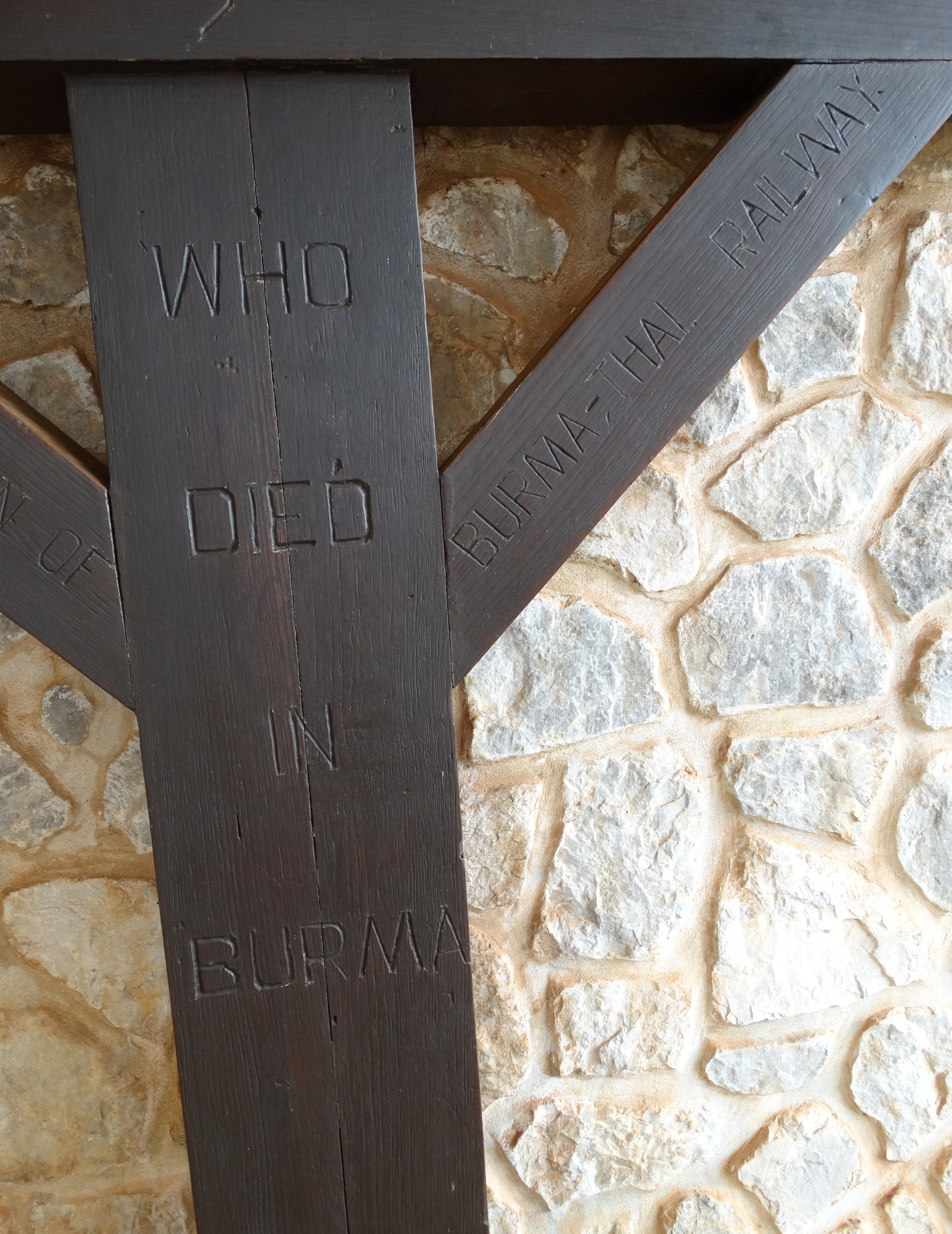 Detail of Original Cross Created by Prisoners of War - Thanbyuzayat War Cemetery - Thanbyuzayat - Myanmar (Burma)